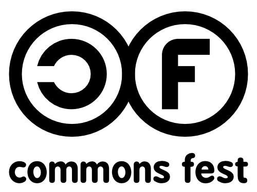 The logo of the Commonsfest